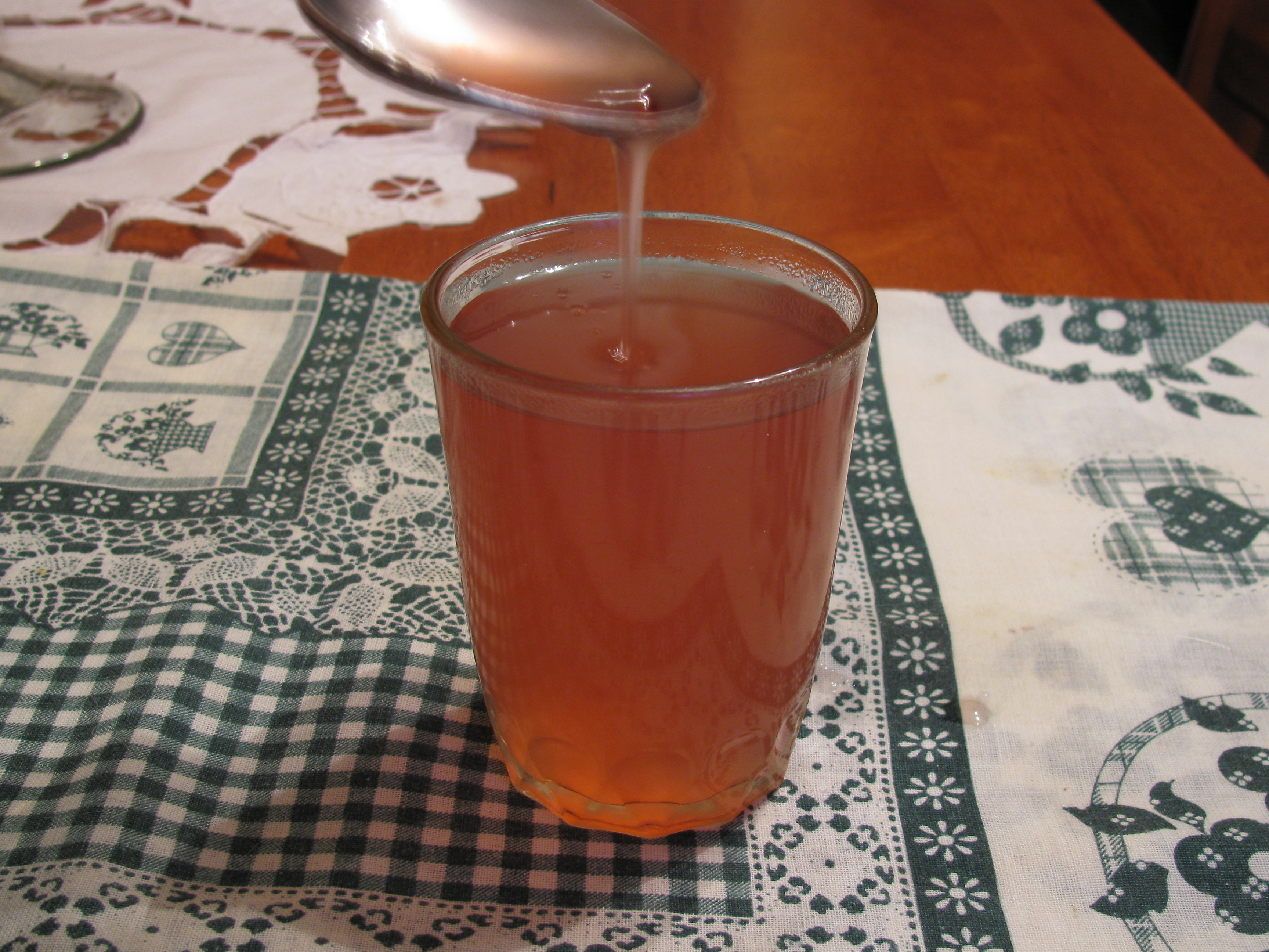 Black currant kissel